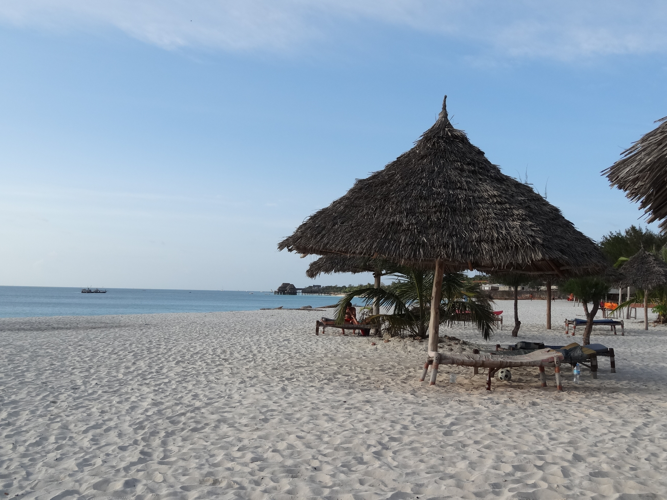 Kendwa Beach (Sunset Kendwa Hotel), Zanzibar, Tanzania